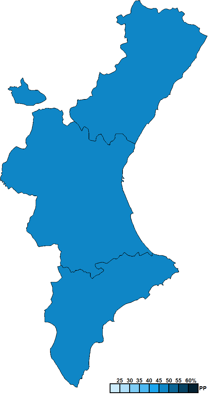 Provincial results for the 2003 Valencian regional election.